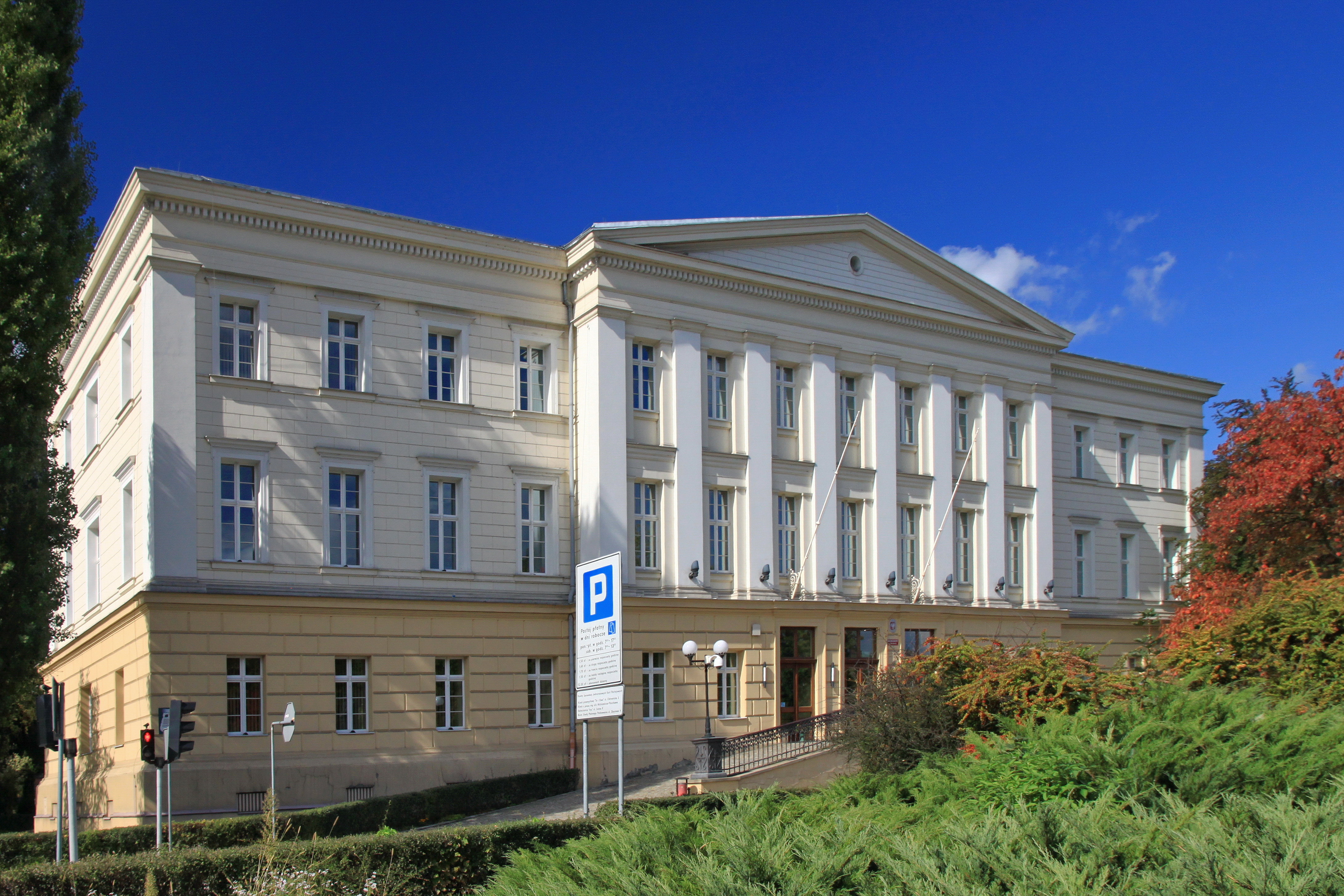 Racibórz, district court, build in 1823-1826